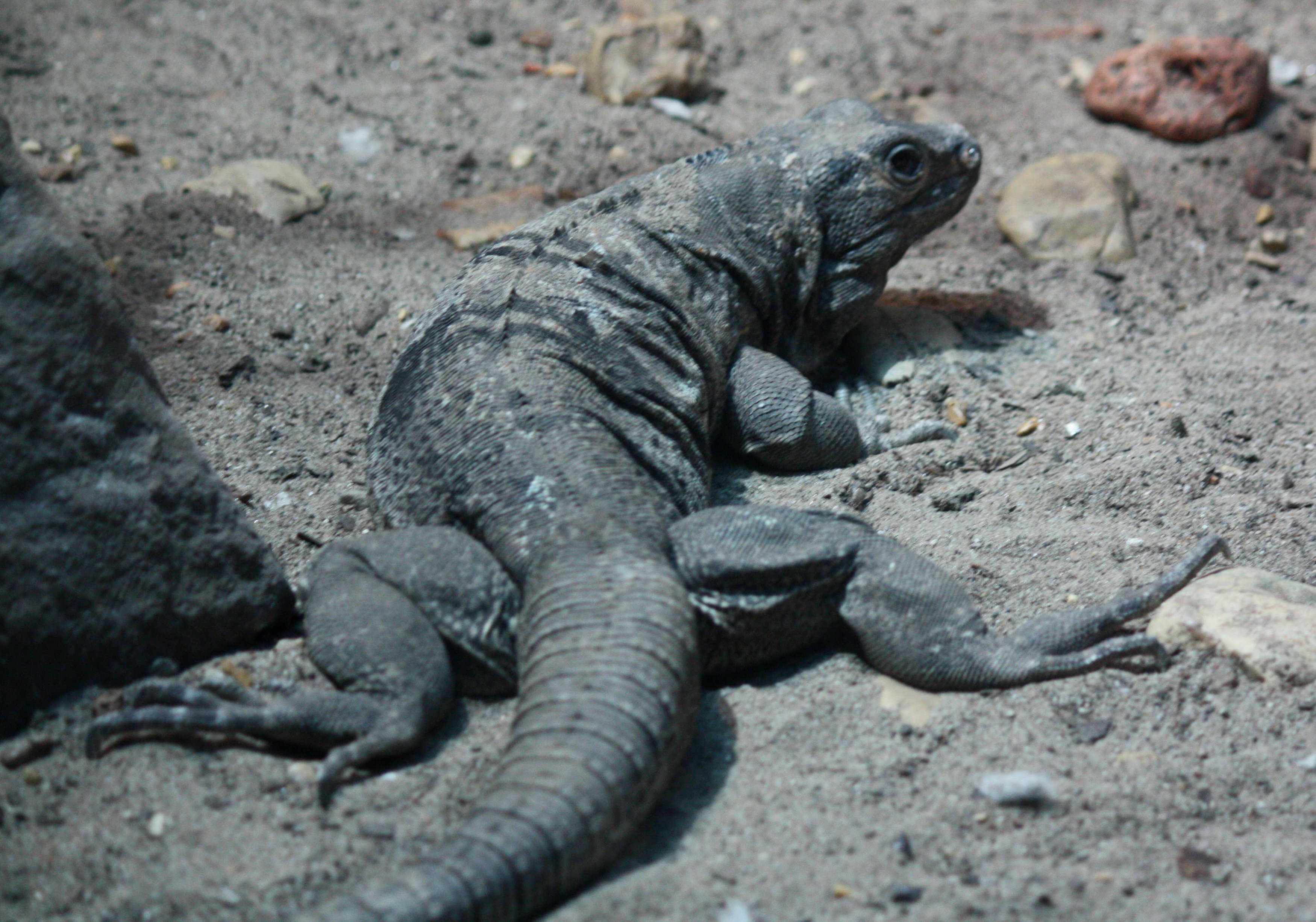 Spiny Tailed Iguana "Ctenosaura hemilopha" at Nashville Zoo